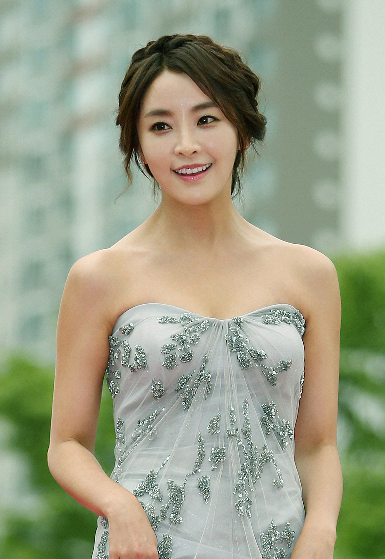 Actress Jeong Yu-mi (born 1984) arrives at the red carpet event of the Pifan in Bucheon on July 17, 2014